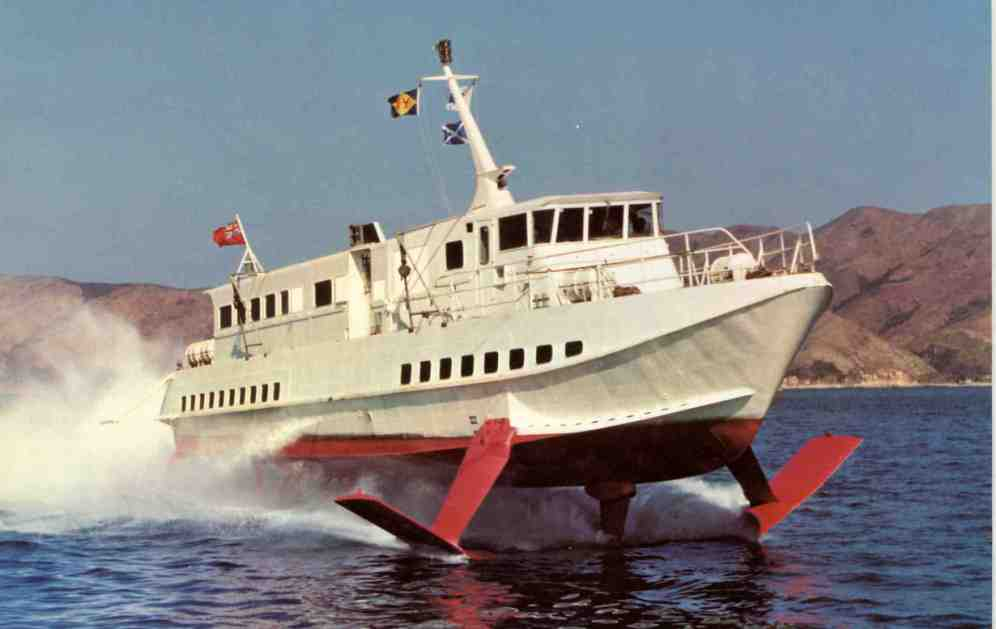 Old type hydrofoil